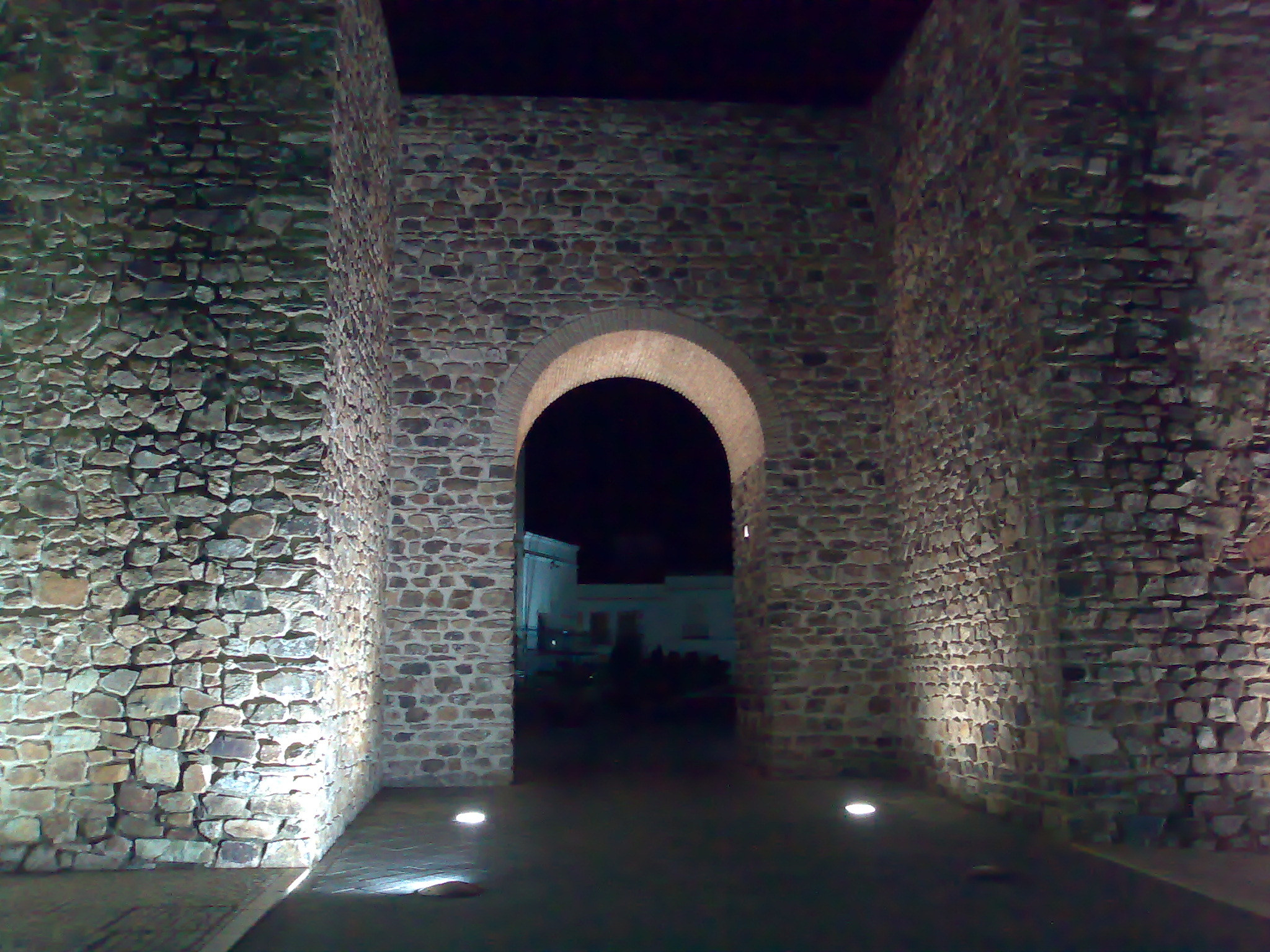 Castle of Olivença